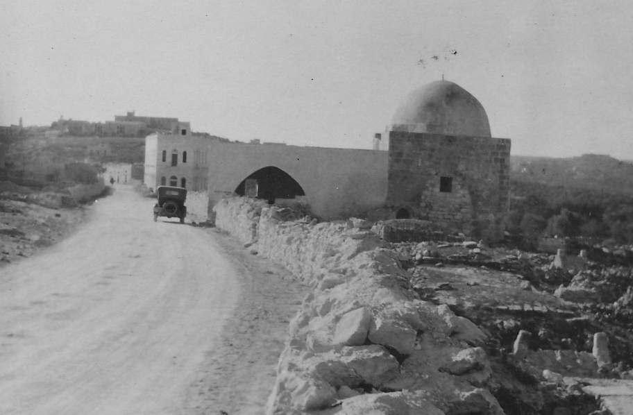 Rachel's tomb with Muslim graves. View looking South towards Bethlehem.